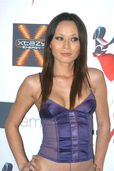 March 10, 2007: Ron Jeremy's Birthday Party A Mob Scene In Hollywood Saturday Night